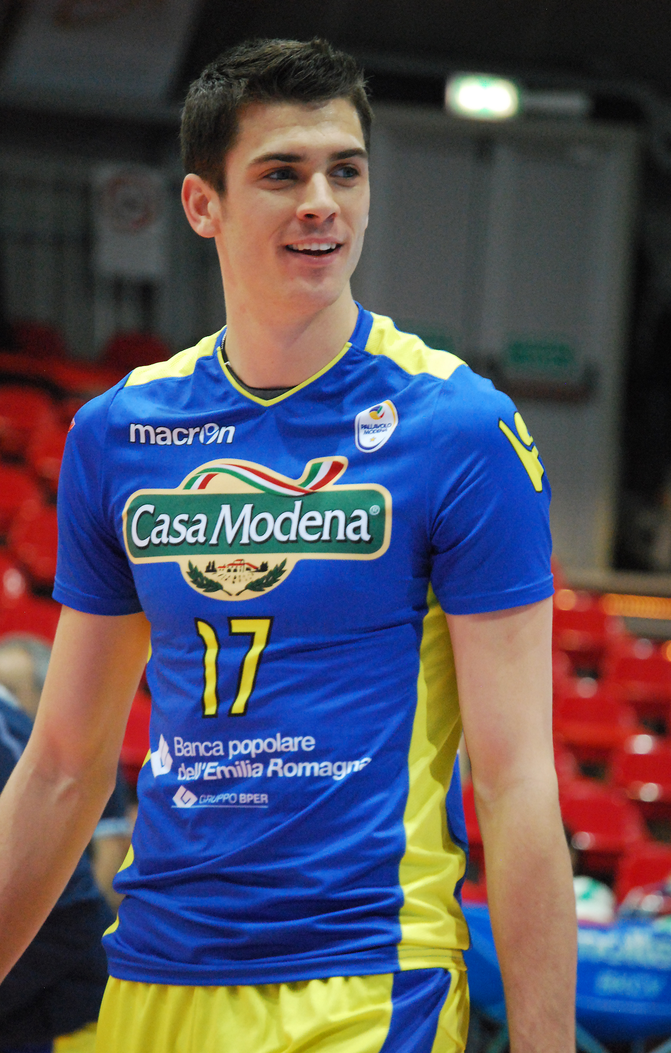 Scattata durante l'incontro Piacenza-Modena